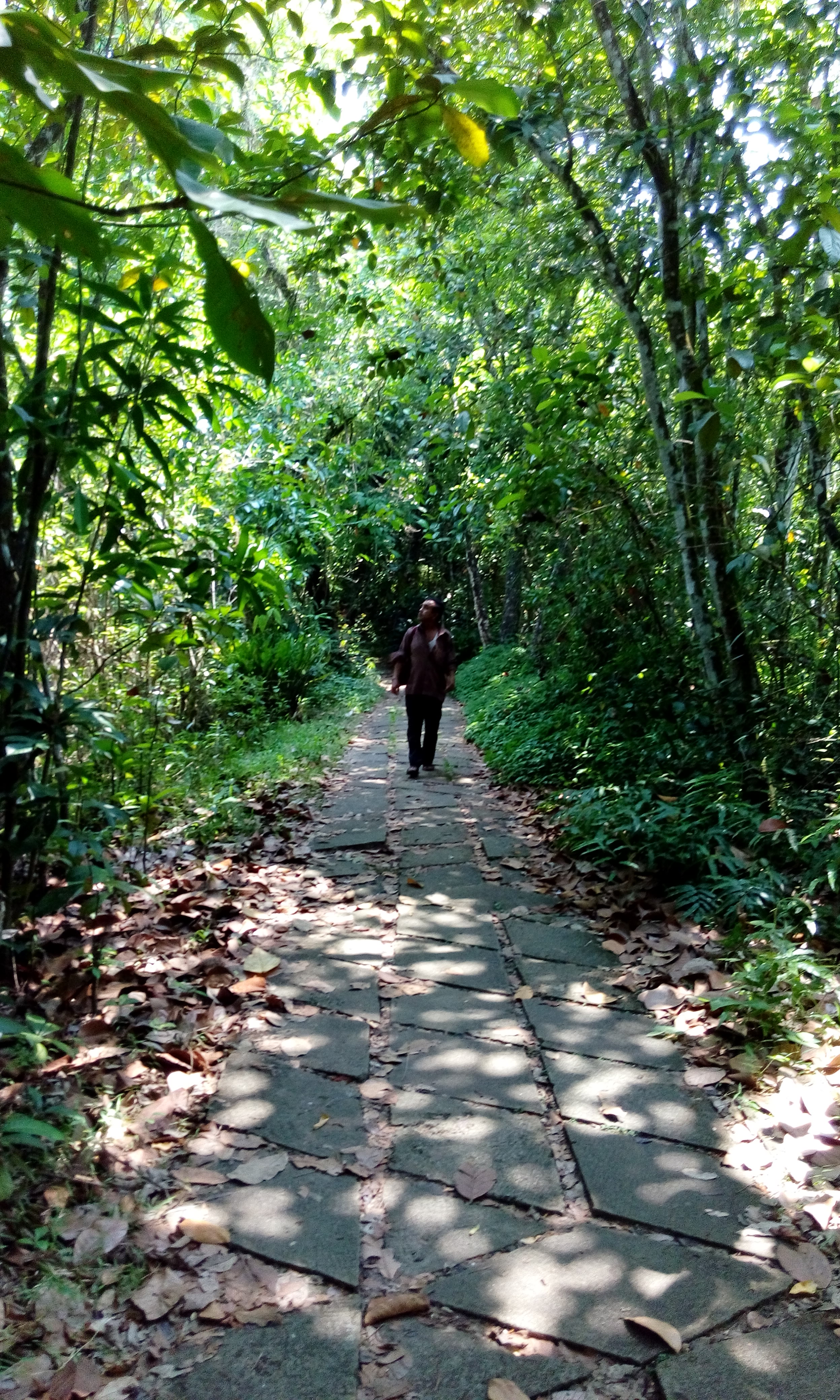 Its the way to the watchtowers of KUMARAKOM BIRD SANTUARY, KERALA